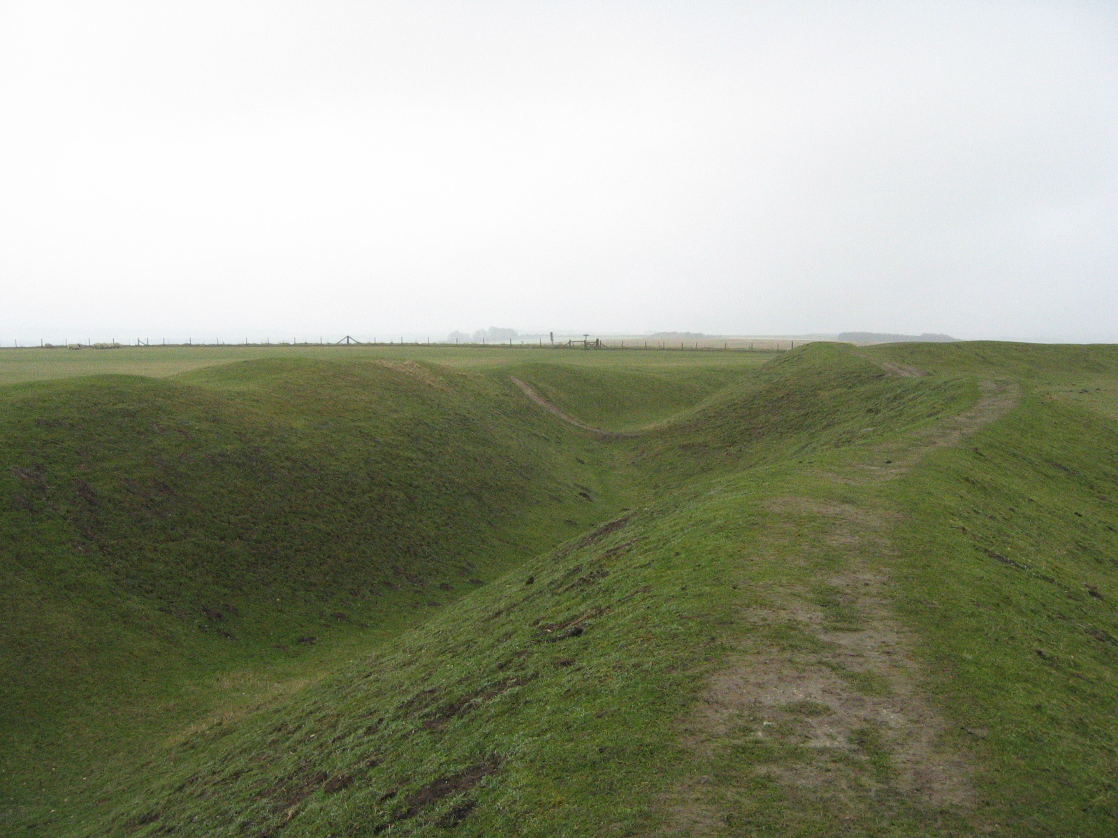 Atlas of Hillforts 0146 I have made this picture in 27th of March 2004 It captures a section of the defence ditch of the Uffington Castle build cca. 2700 years ago